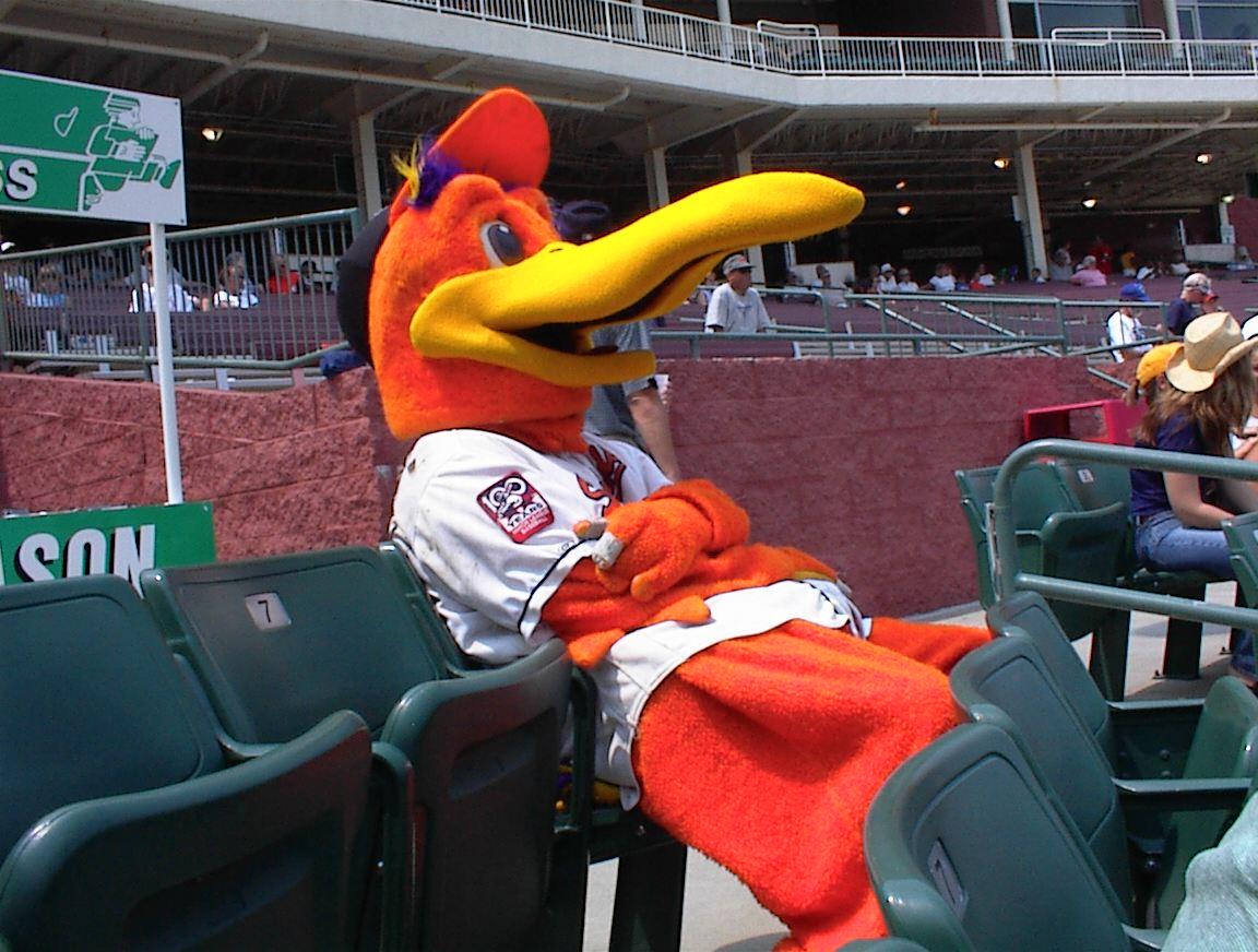 Taken July 7, 2002 on location, of the Delmarva Shorebirds mascot, Sherman the Shorebird Bwave 16:51, 13 August 2006 (UTC)